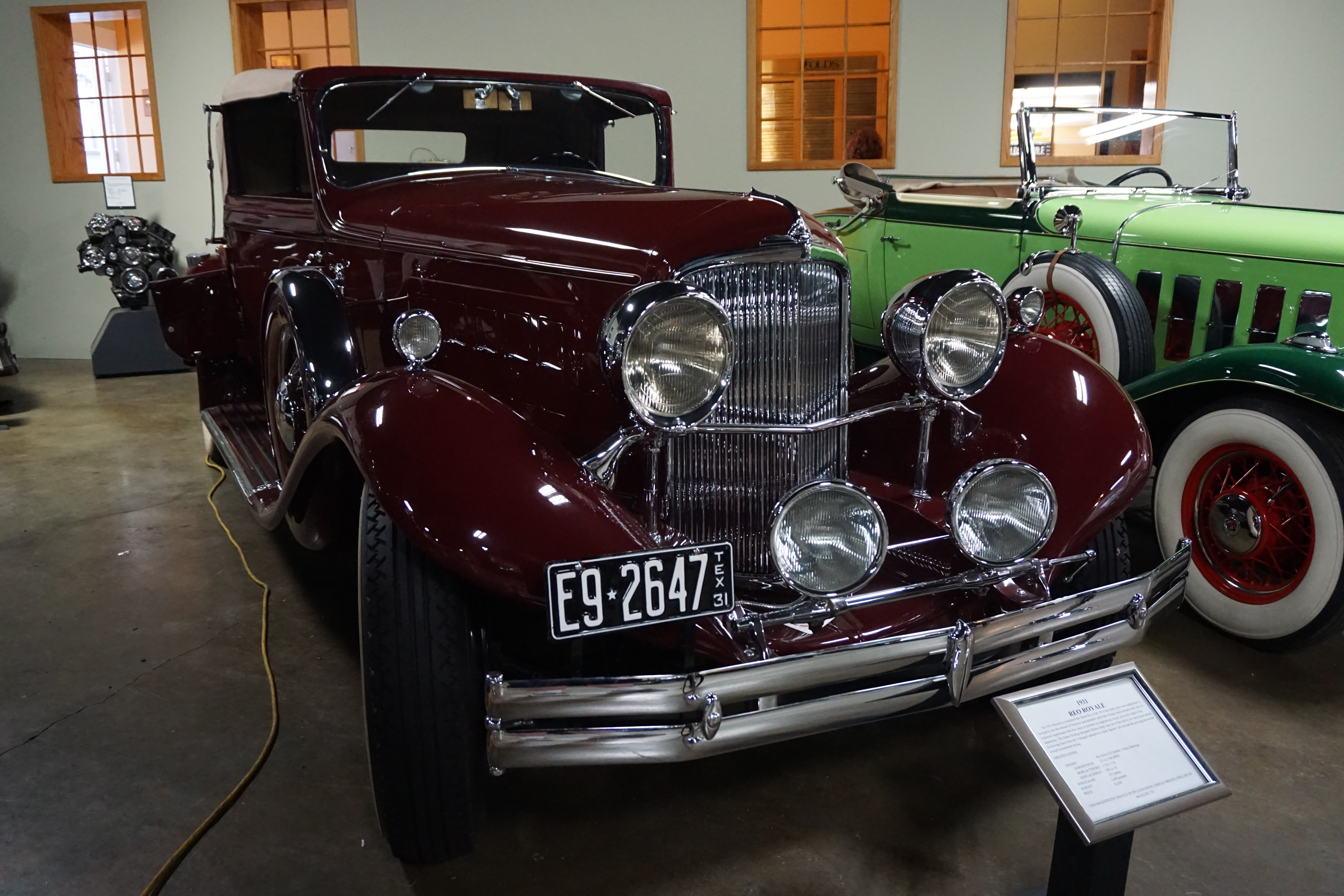 A 1931 REO Royale at the R. E. Olds Transportation Museum in Lansing, Michigan (United States).